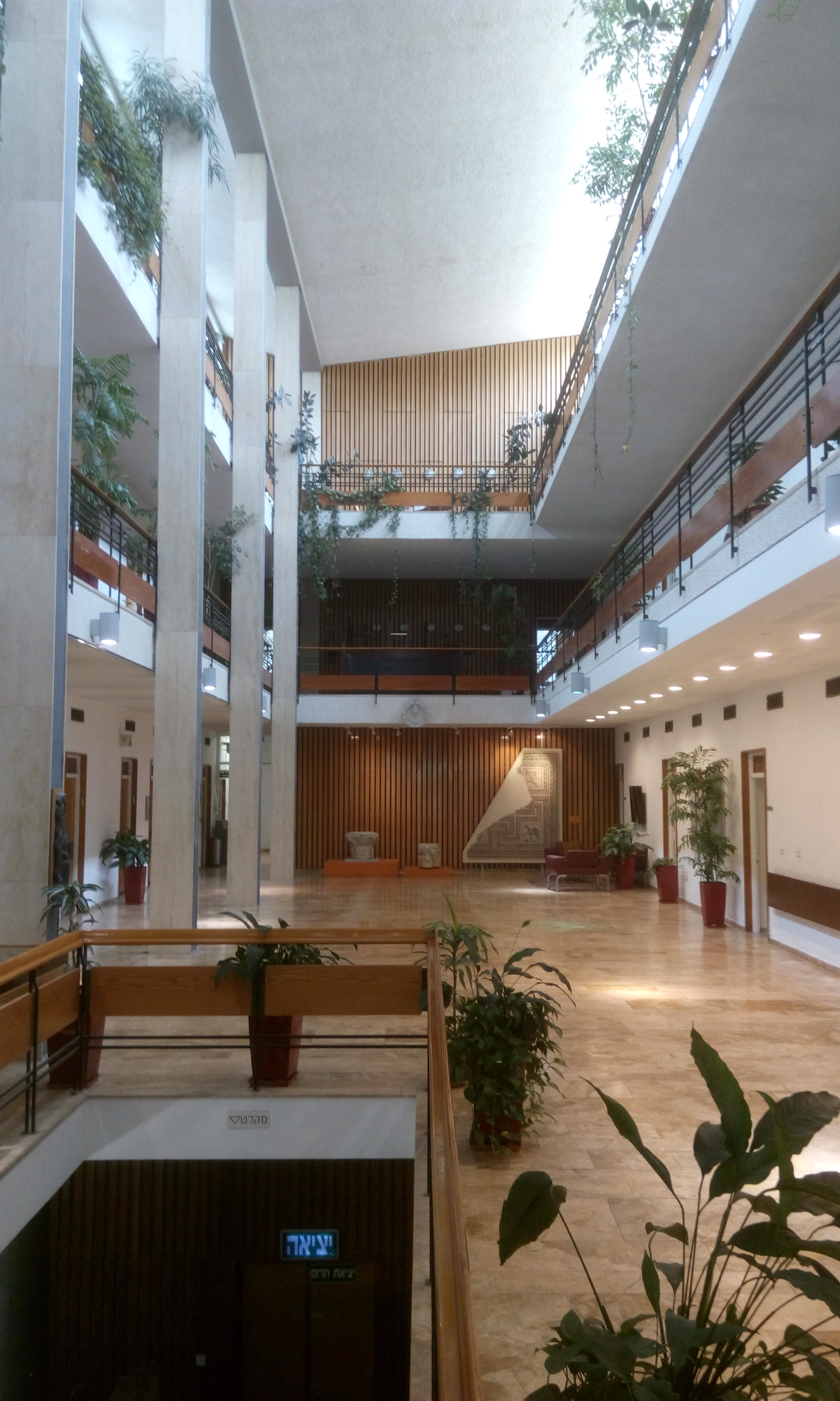 Interior view from the front door lobby of the atrium within the Israel Institute for Advanced Studies (IAS) building at the Hebrew University of Jerusalem, Israel.